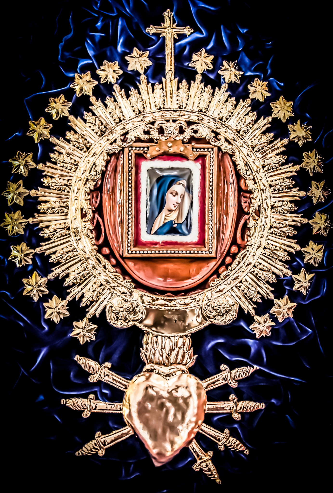 Mahal na Ina kan Batong Paloway (Our Lady of Sorrows of Batong Paloway) The Heart of Calolbon. copyright "AjSolero" - Aldrin Jacobo Solero